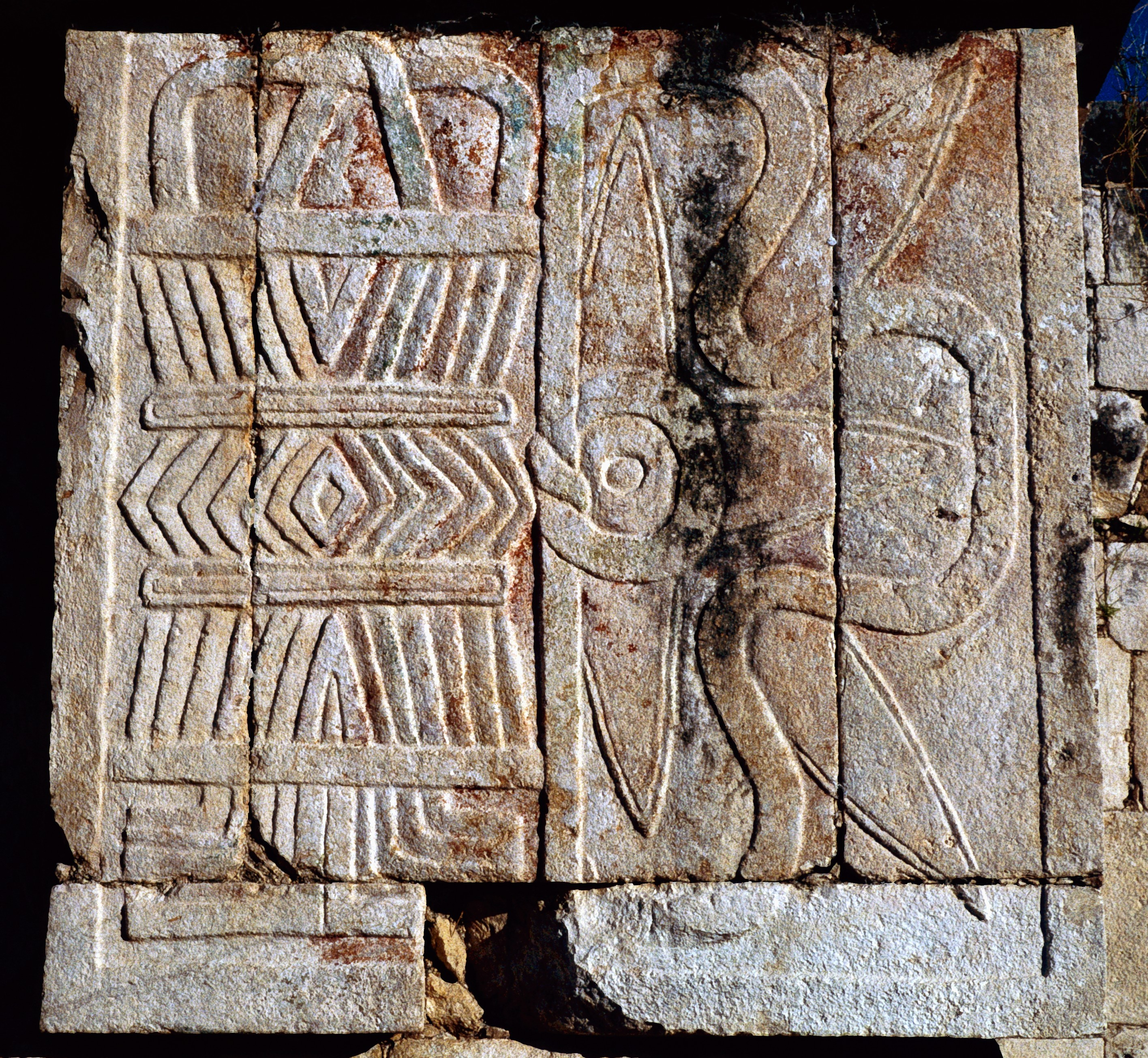 Chichen Itza, Yucatan, Mexico: Venus plattform